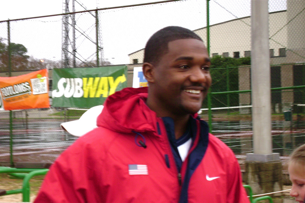 Olympic Gold Medal athlete, Justin Gatlin, at the 2nd Annual Children's Marathon in Pensacola, FL.